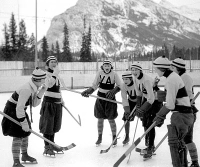 The Vancouver Amazons enjoy a light-hearted practice on the outdoor rink at Banff, Alta. Credit: Whyte Museum of the Canadian Rockies, V263-3862.